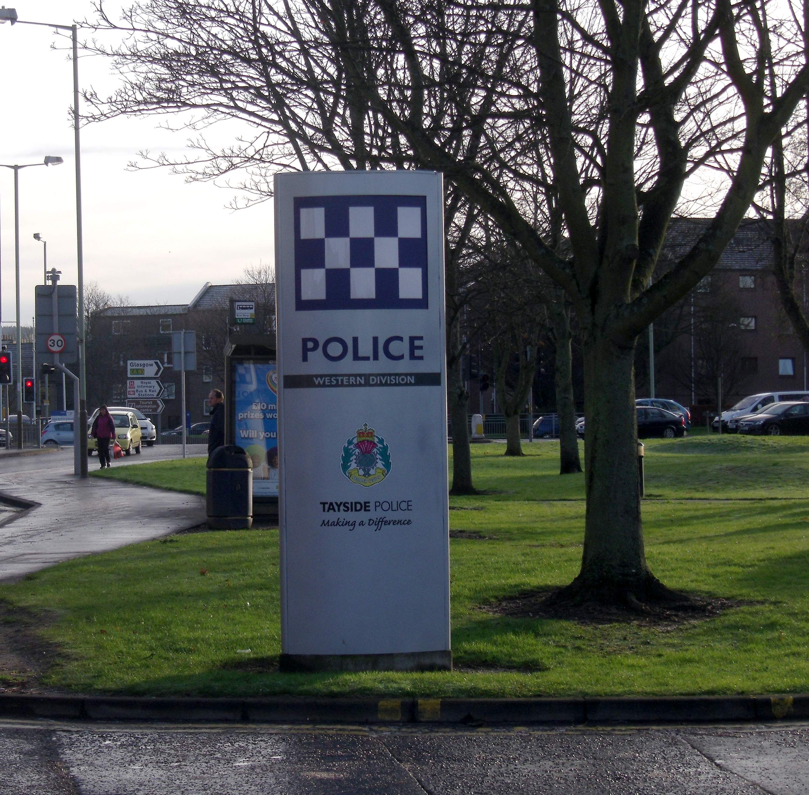 Tayside Police Divisional Headquarters, Barrack Street, Perth, Scotland